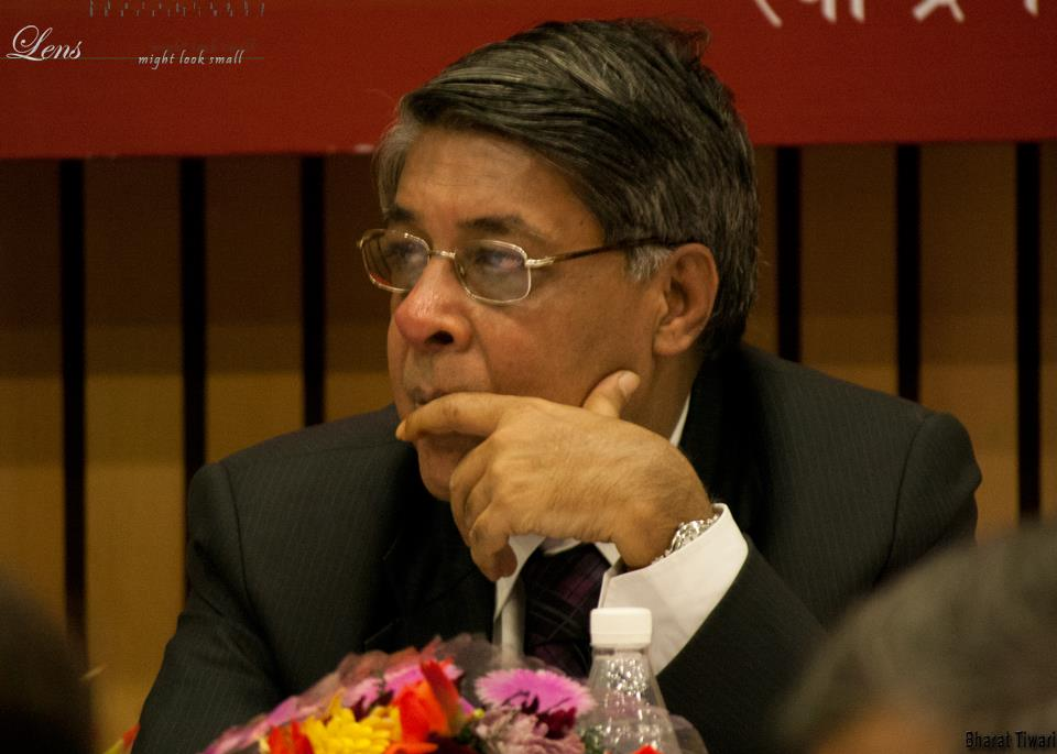 Photo taken during launch of his book.